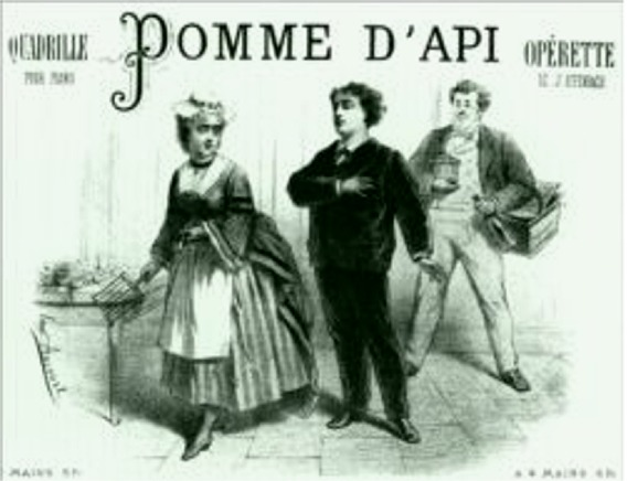 Pomme d'api, quadrille from the eponymous operetta by Jacques Offenbach, title page (low resolution)